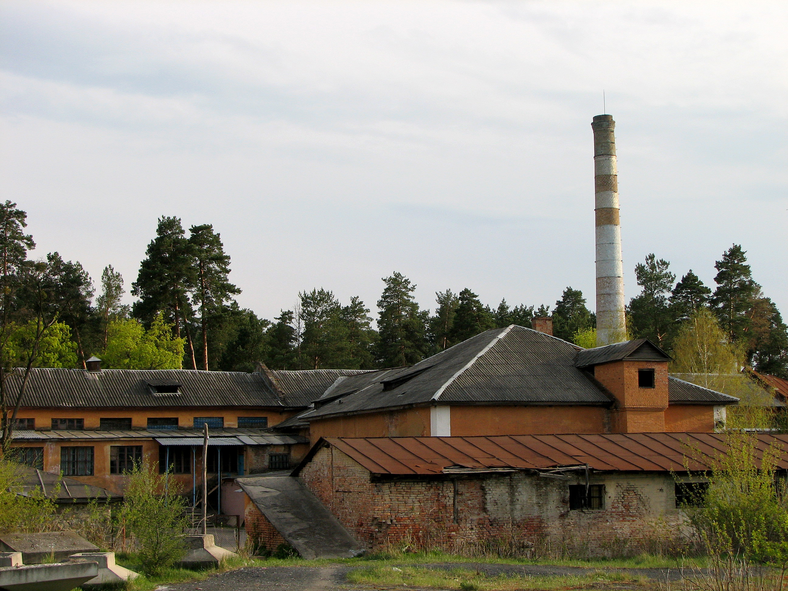 Factory in the village of Kurortne, Kharkiv Oblast, Ukraine